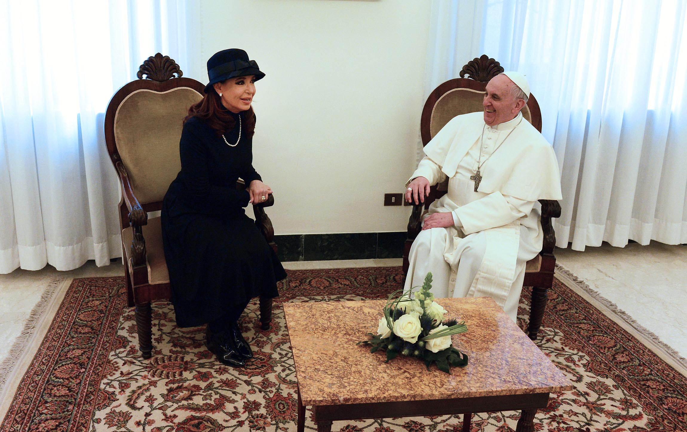 Cristina Fernández de Kirchner, president of Argentina, with Pope Francis